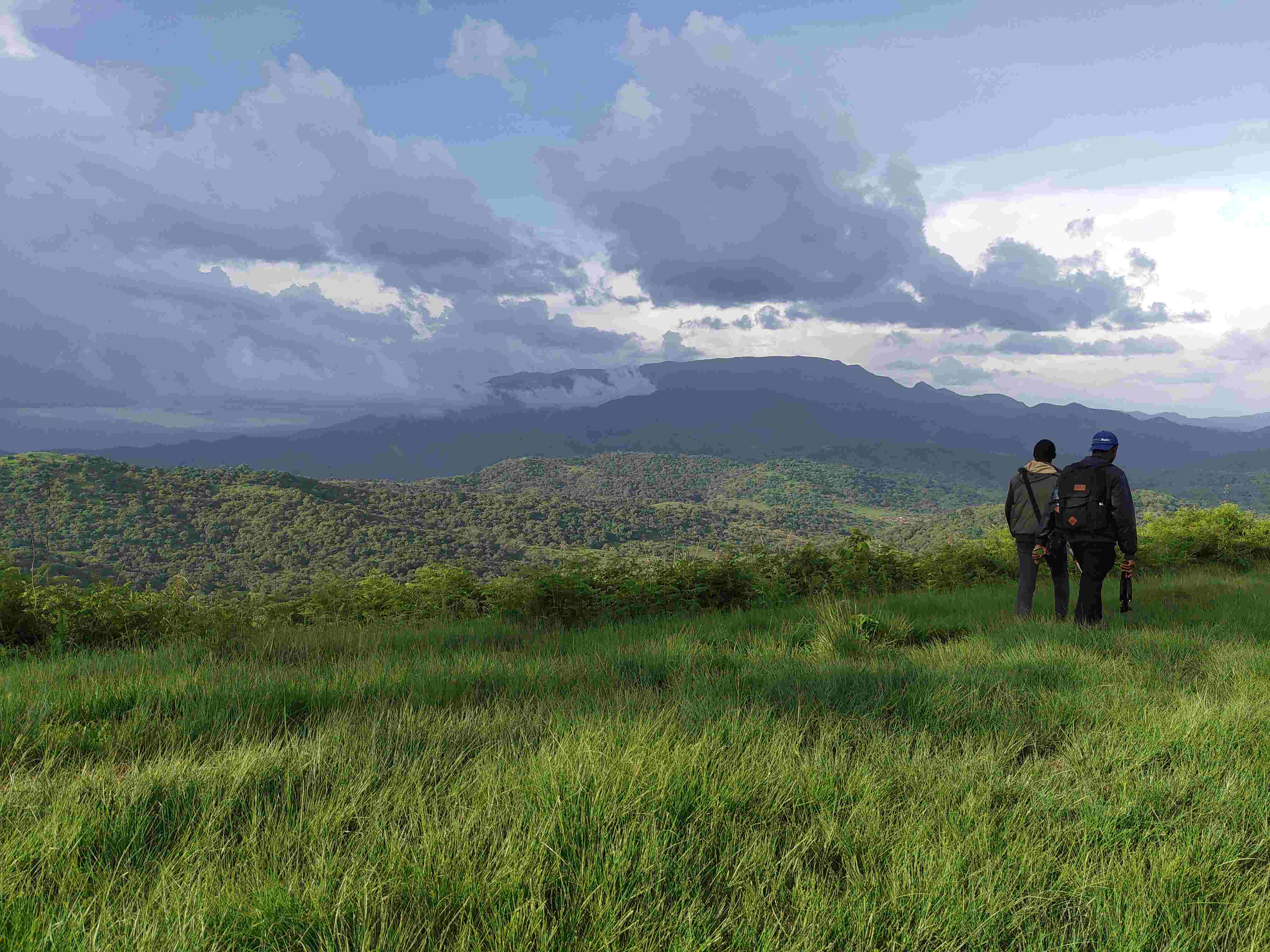 Attempt to hike the highest point in subsaharan Africa